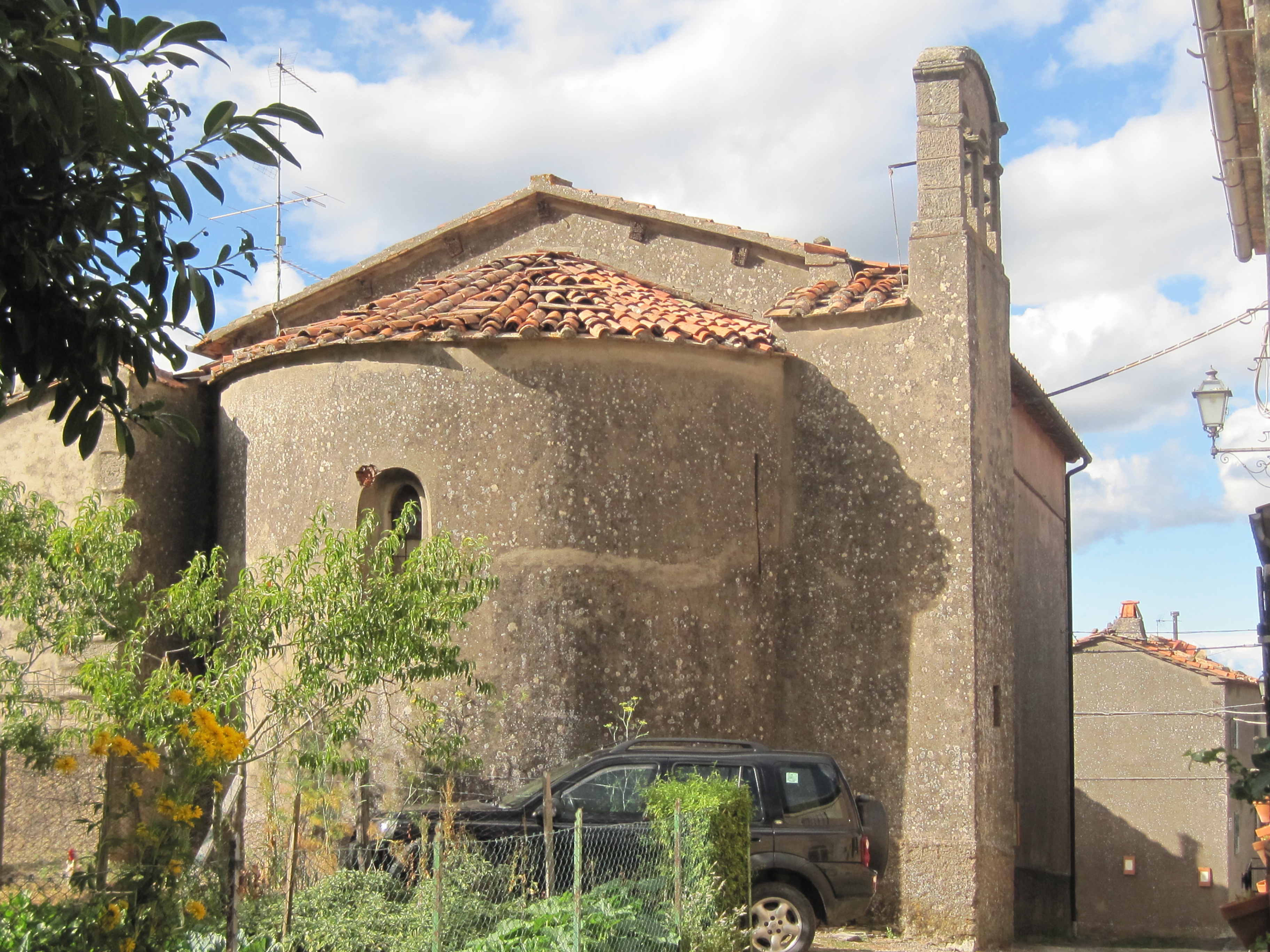 Chiesa della Madonna in Salaiola, Arcidosso